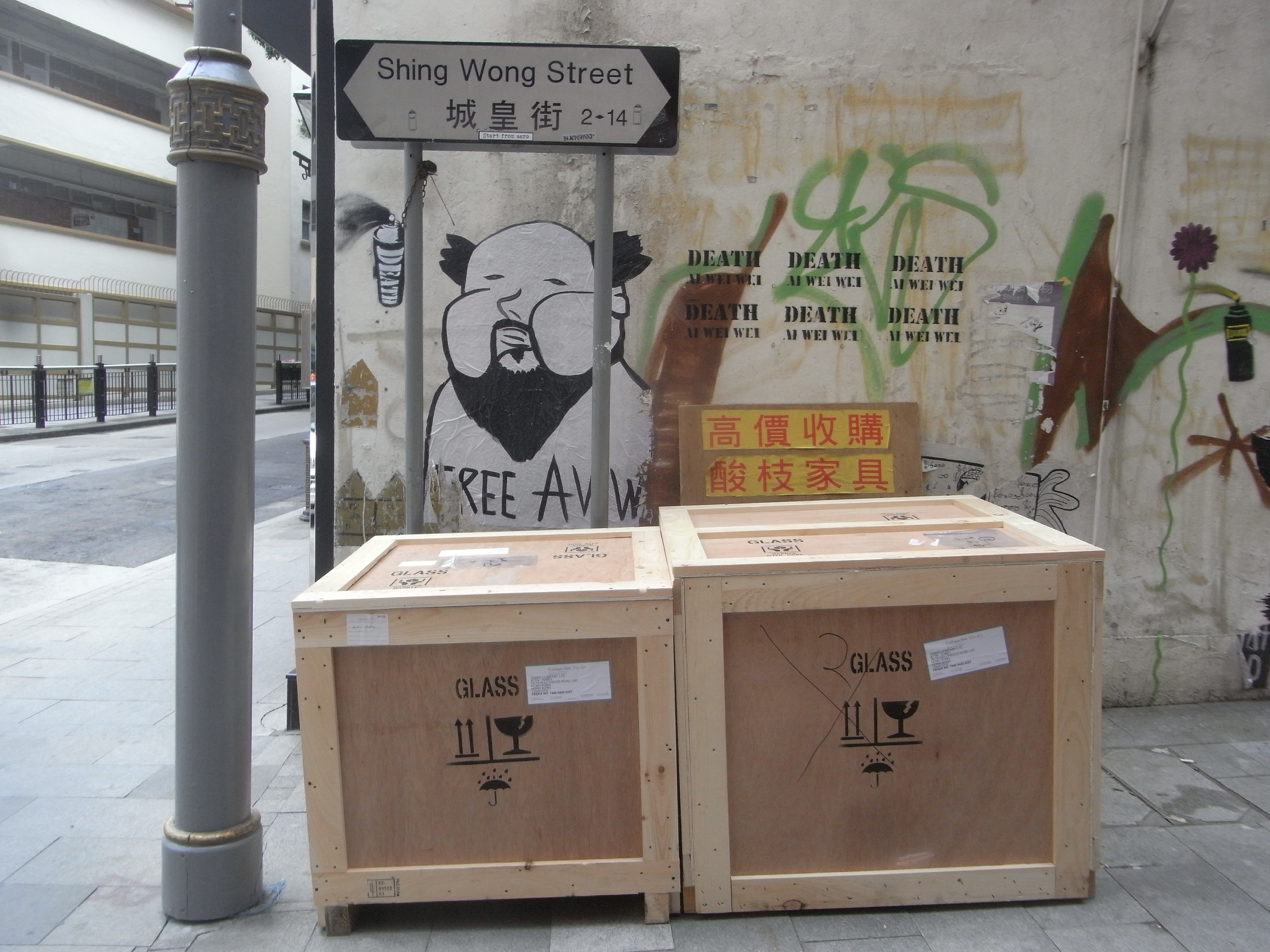 上環荷李活道